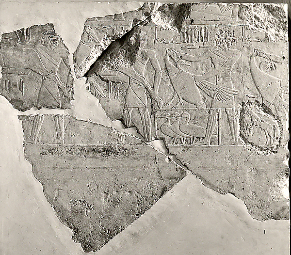 Relief fragment from the mastaba of the ancient Egyptian treasurer Rehuerdjersen, who officiated during the reign of pharaoh Amenemhat I of the 12th Dynasty, Middle Kingdom. From Lisht, now in the Metropolitan Museum of Art, New York, acc. No. 22.1.6.